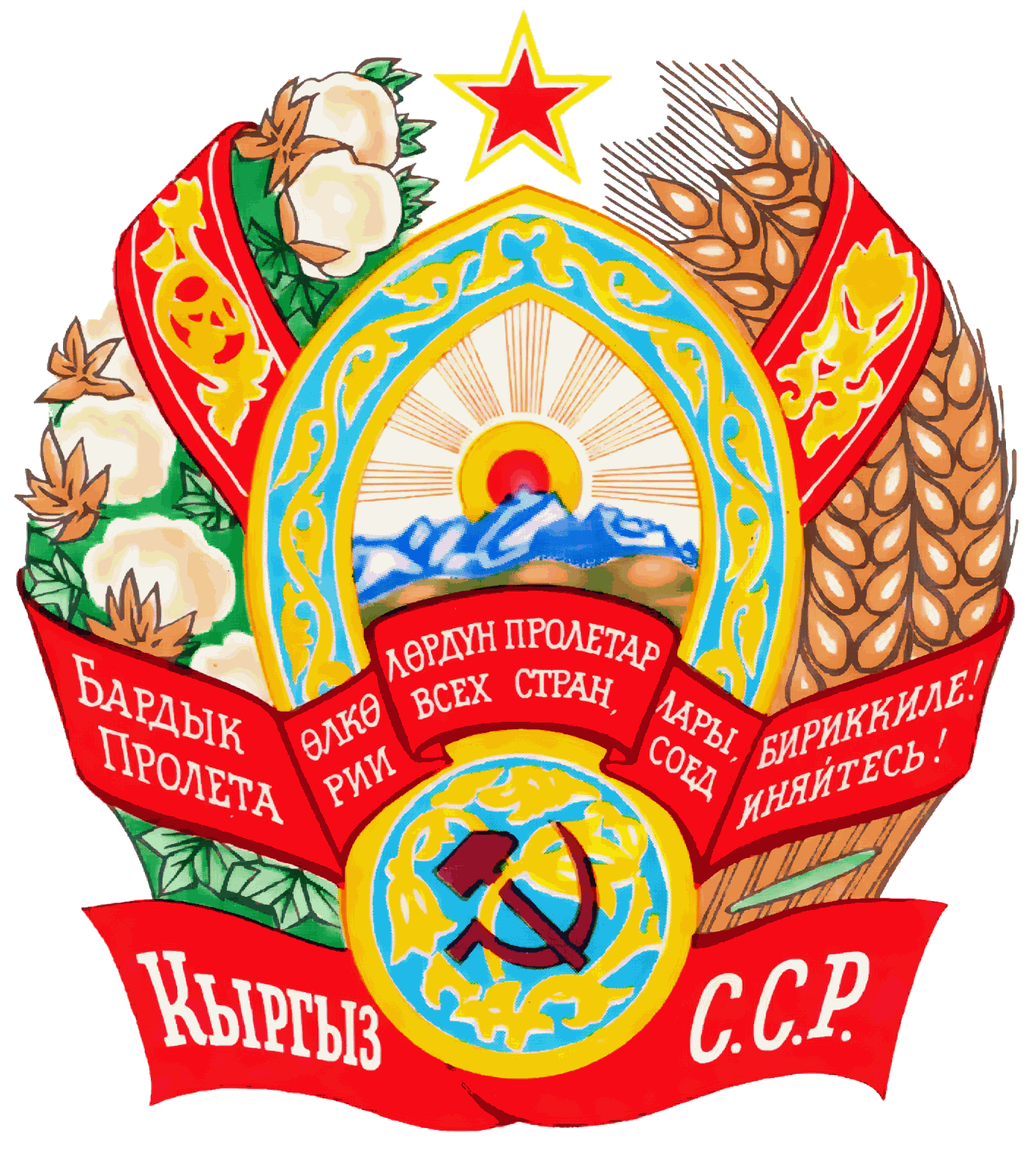 Coat_of_arms_of_Kyrghyz_SSR.png